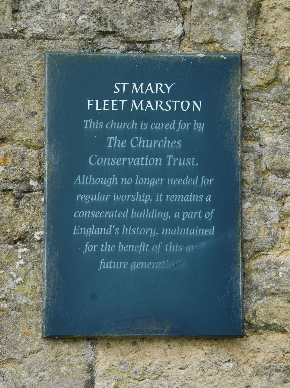 Churches Conservation Trust plaque on the north porch of St Mary's parish church, Fleet Marston, Buckinghamshire